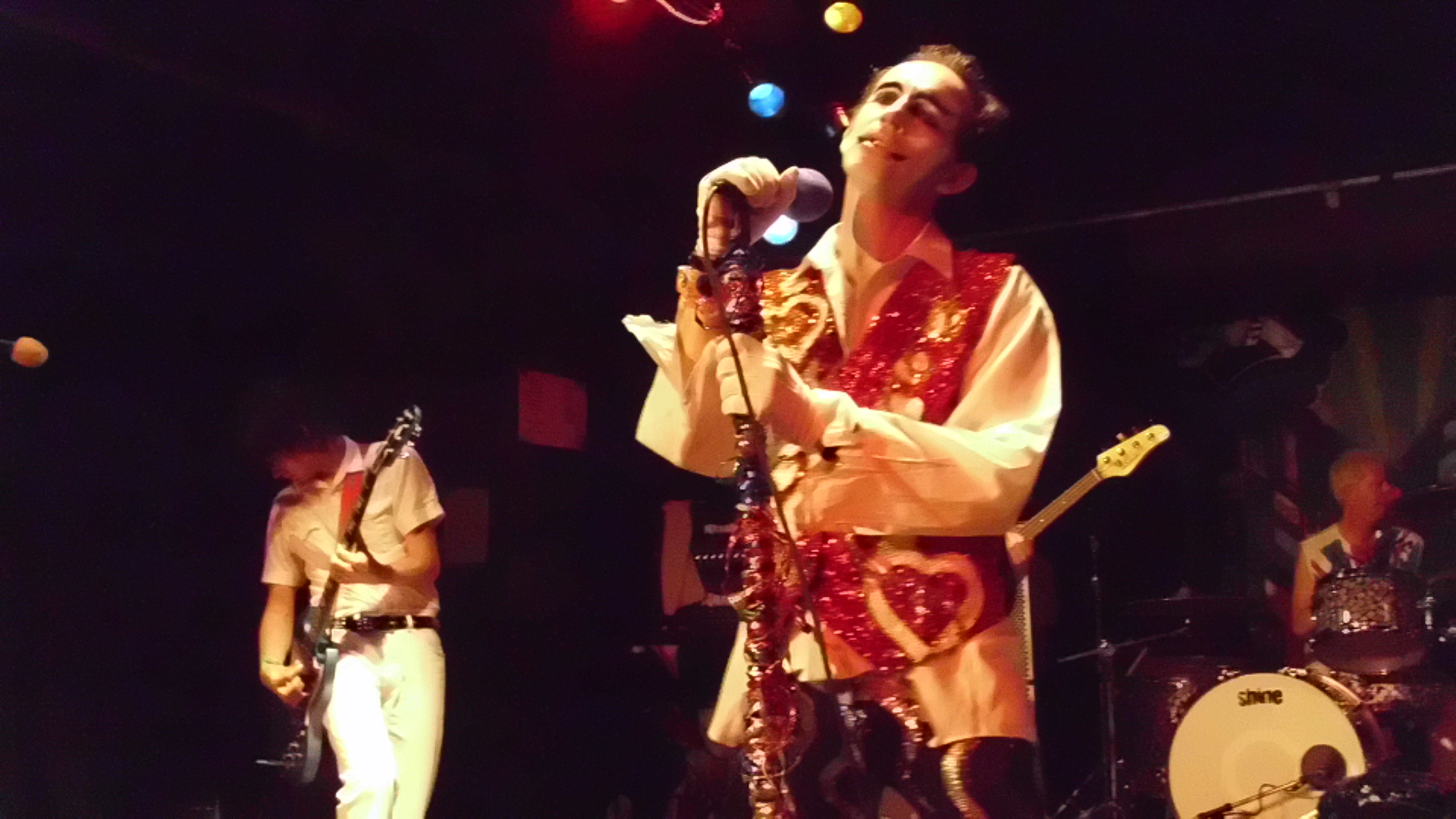 The Adicts live at Reggie's Rock Club, Chicago